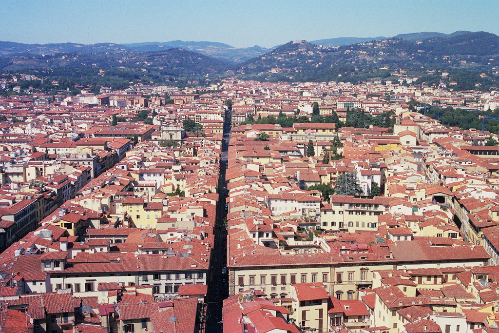 Florence, View over Florence from Giotto Bell Tower